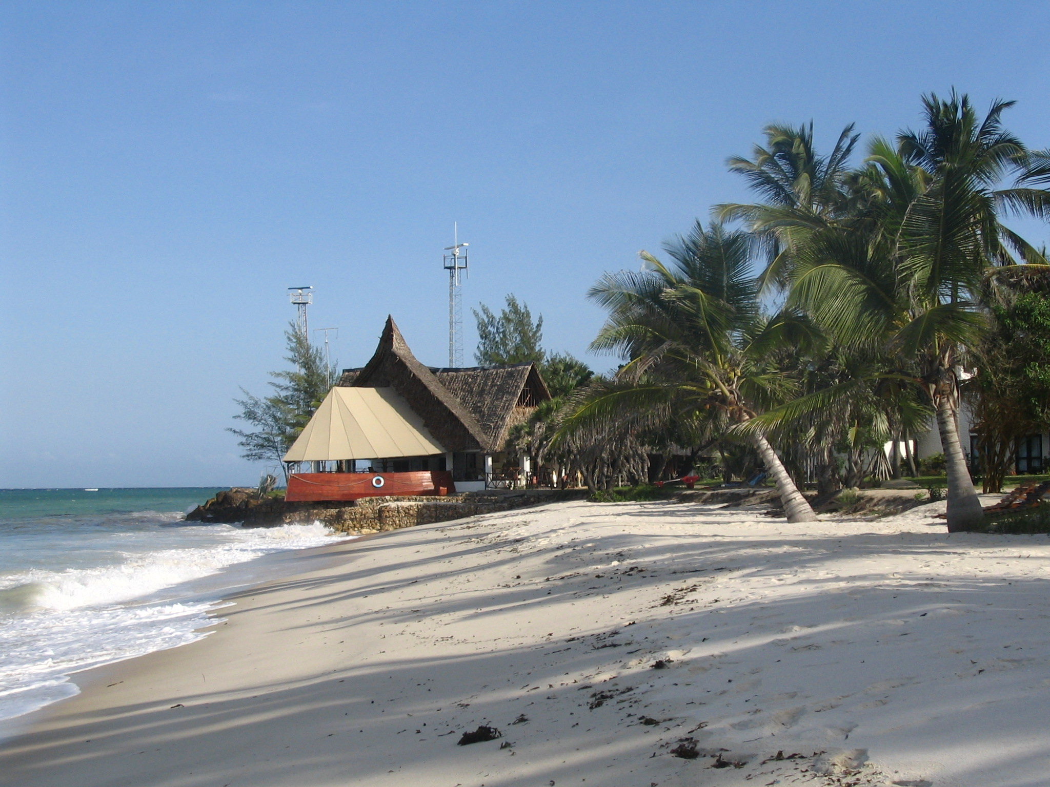 Diani Beach as viewed towards the south, next to the Indian Ocean Beach Club hotel, near Mombasa, Coast Province, Kenya.